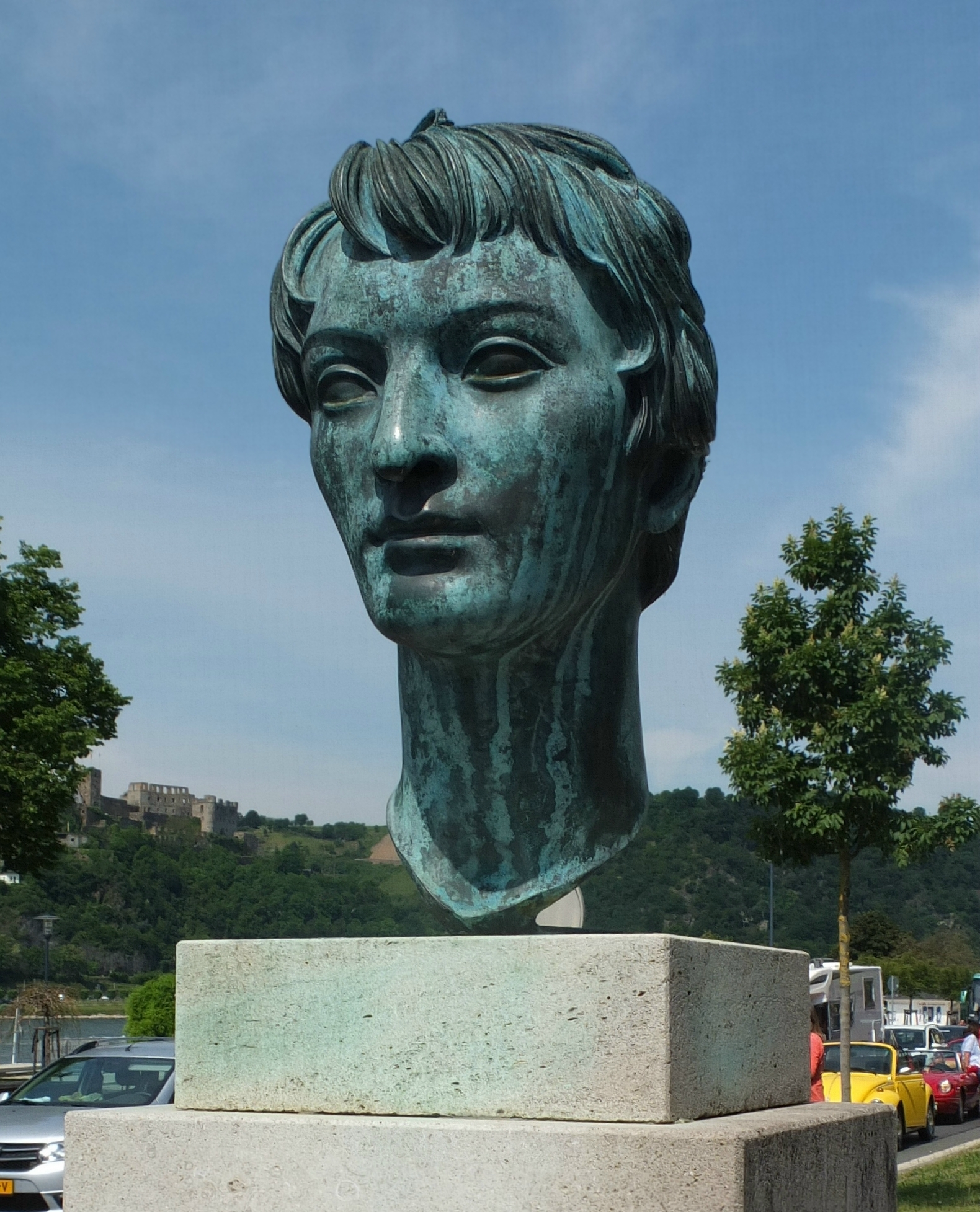 Bust of Heinrich Heine (1797-1856) in Sankt Goarshausen, Germany.